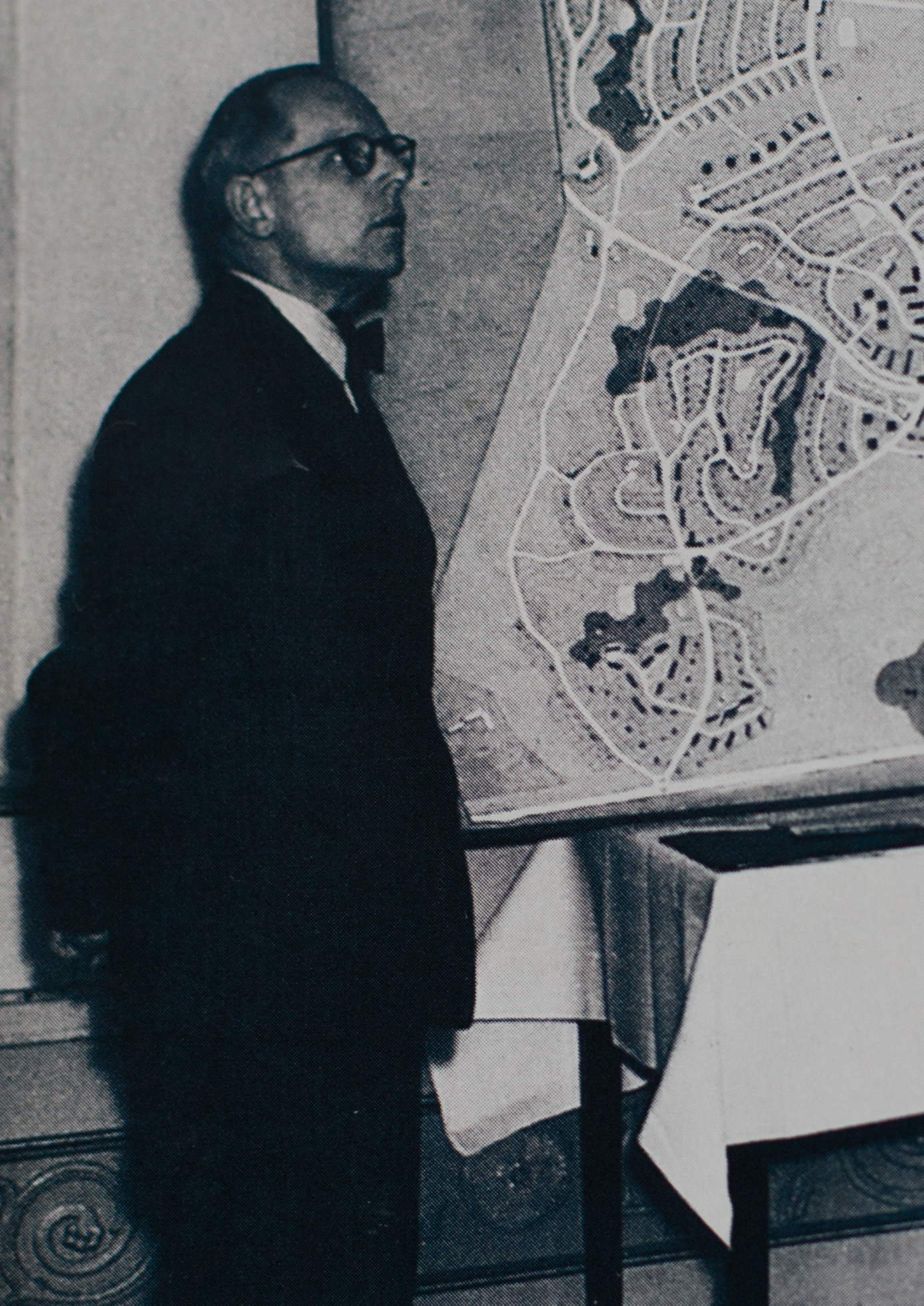 Otto-Iivari Meurman presenting plans of Tapiola to Asuntosäätiö in December 1951